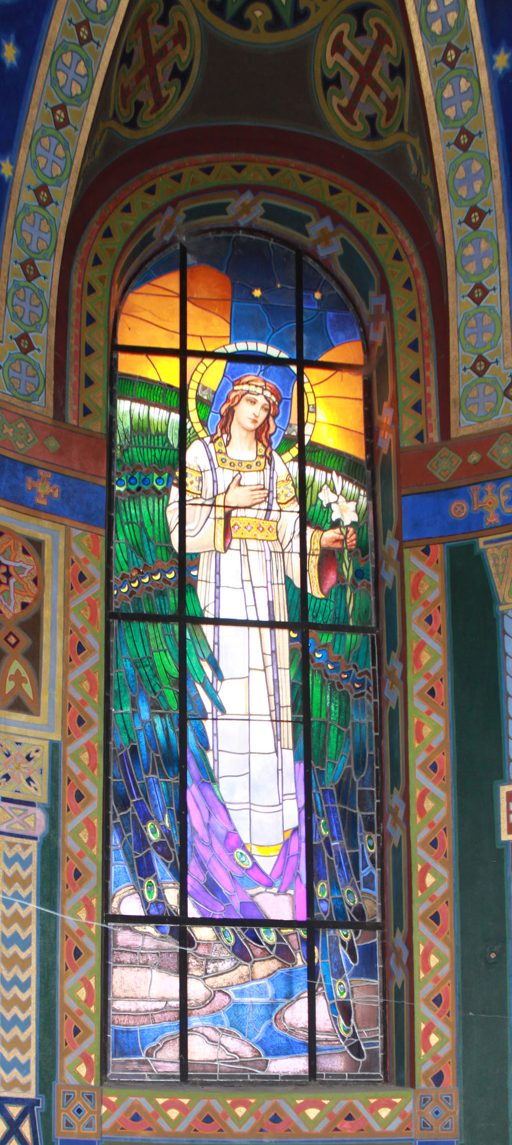 Archangel Gabriel